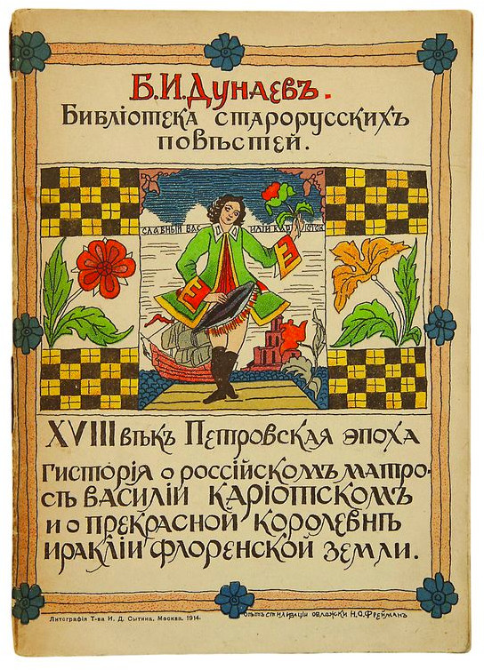 History of the Russian sailor Vasiliy Koriotskiy. Russian lubok book cover. (Image slightly altered and improved via Photoshop)